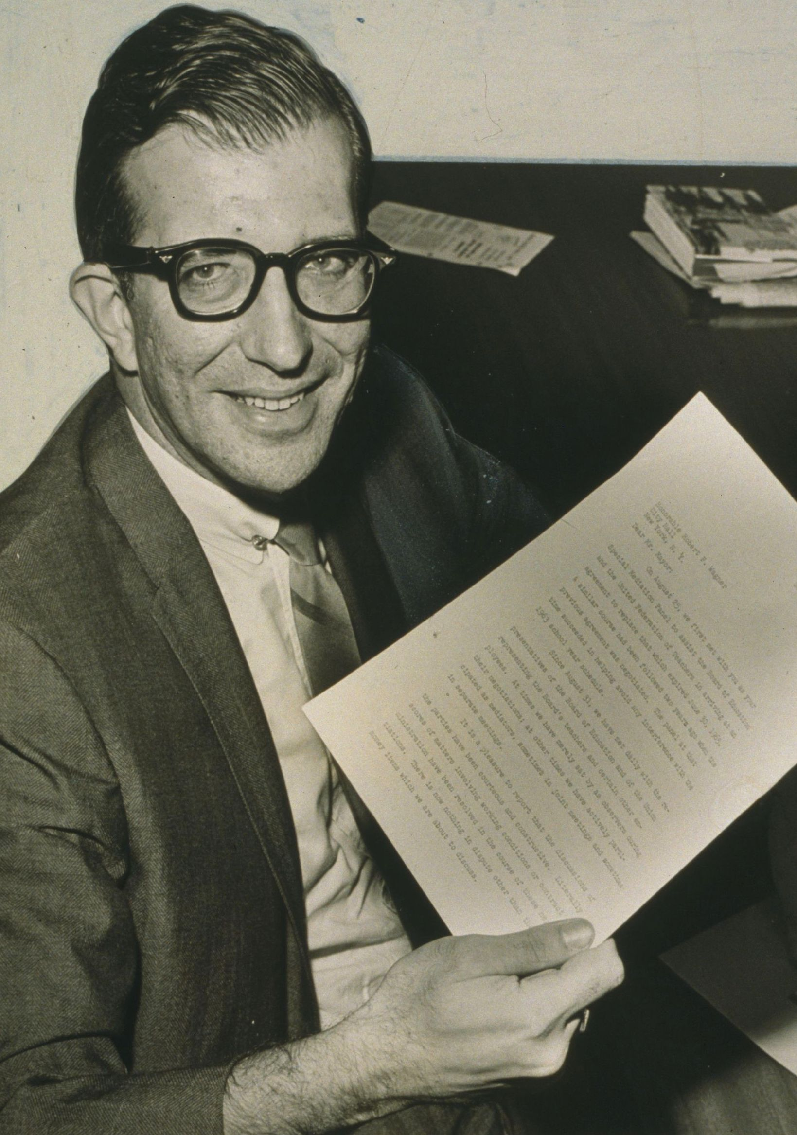 Albert Shanker, Pres of U.F.T. holds report issued by mediators to Mayor Robert Wagner that helped to stop strike threat of teachers / World Telegram & Sun photo by Walter Albertin.